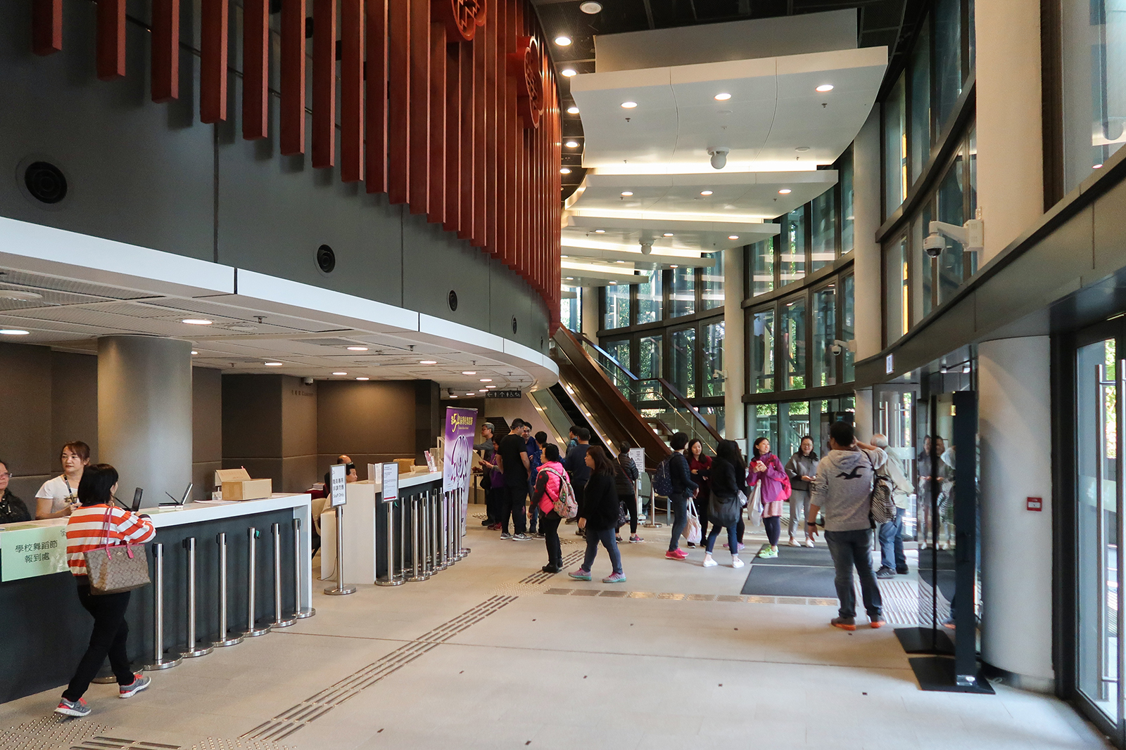 Ko Shan Road Theatre Expansion lobby